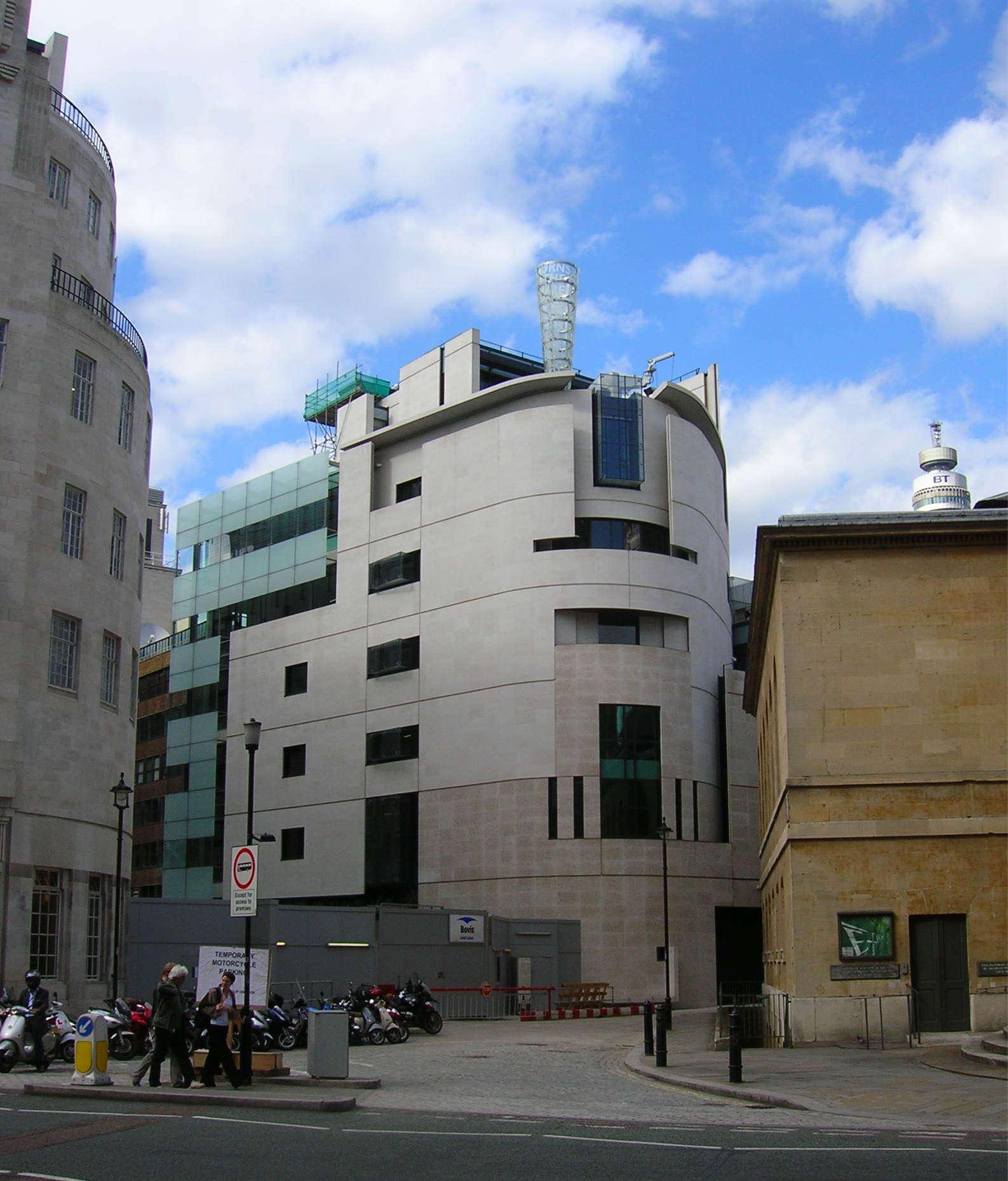 Broadcasting House extension with sculpture Breathing by Jaume Plensa